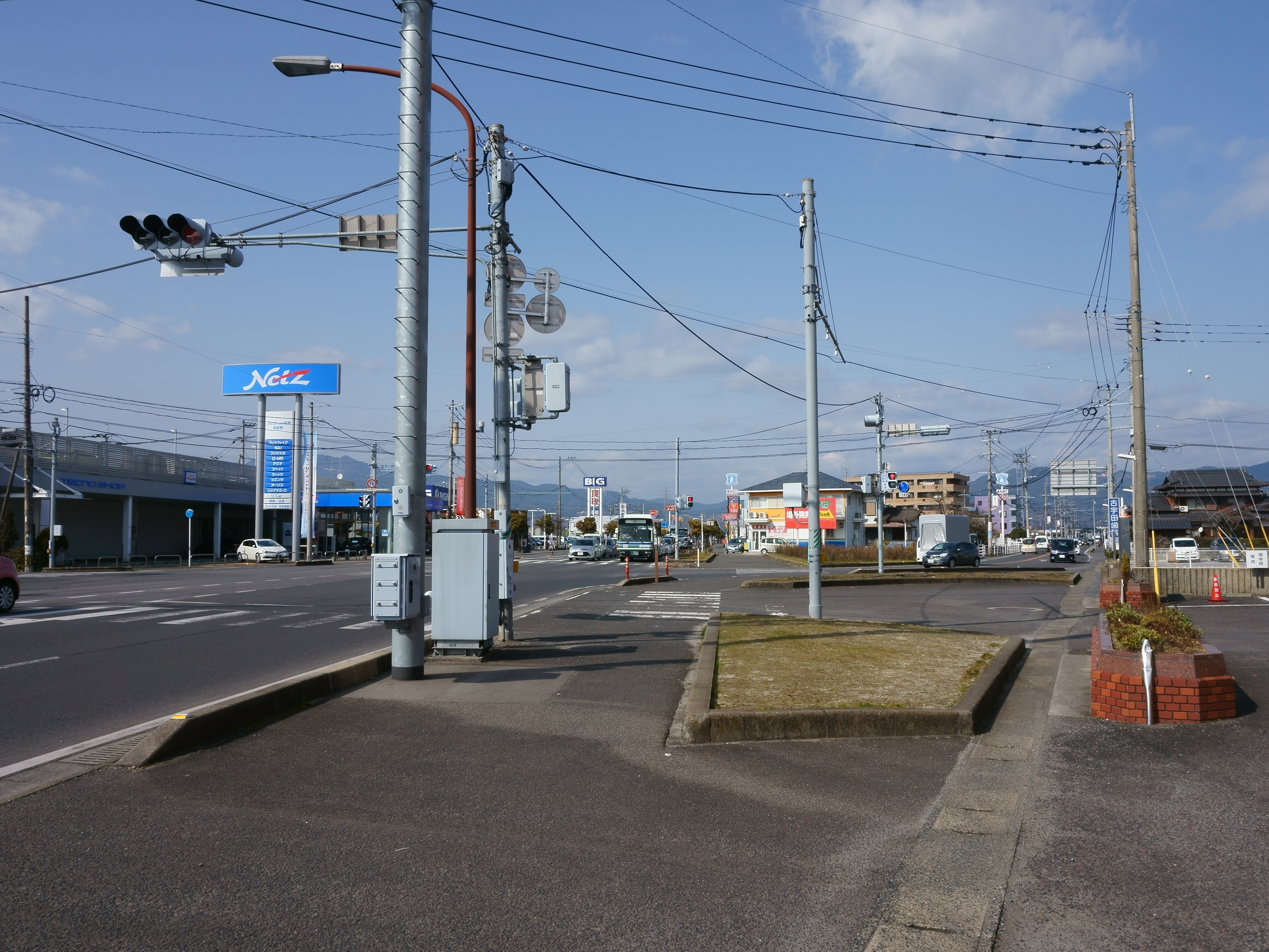 An "Saga industrial park" intersection at Takagise, Saga city, Saga prefecture. It is part of Route 263.